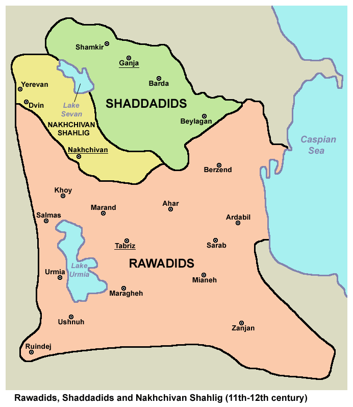 Rawadids, Shaddadids and Nakhchivan Shahlig (11th-12th century).